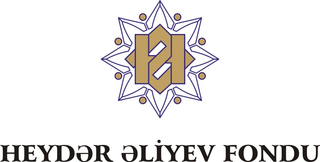 Logo of Heydar Aliyev Foundation